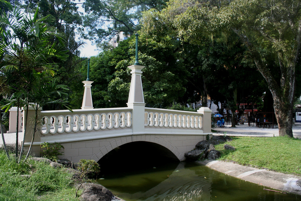 Batista Campos Square in Belém, Brazil